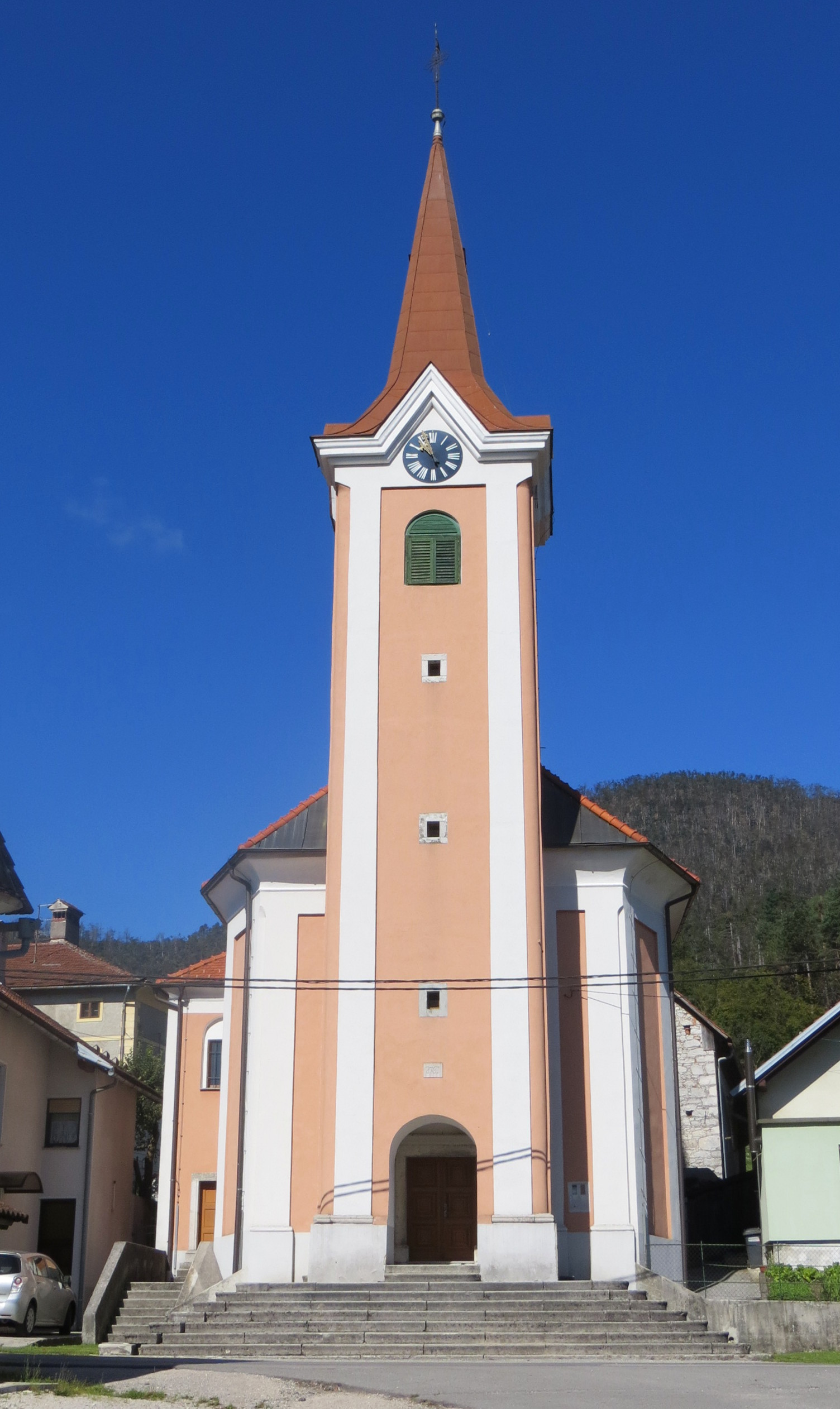 Saint Roch's Church in Planina, Municipality of Postojna, Slovenia